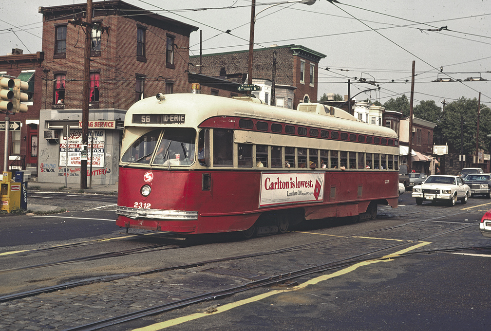 SEPTA #2312 is crossing 6th St. in 56 Erie line Service. This photo was taken in August of 1980. The car had come from Toronto where it had been TTC 4731 and was originally from Birmingham where it was #831. It was scrapped by SEPTA in October of 1981.